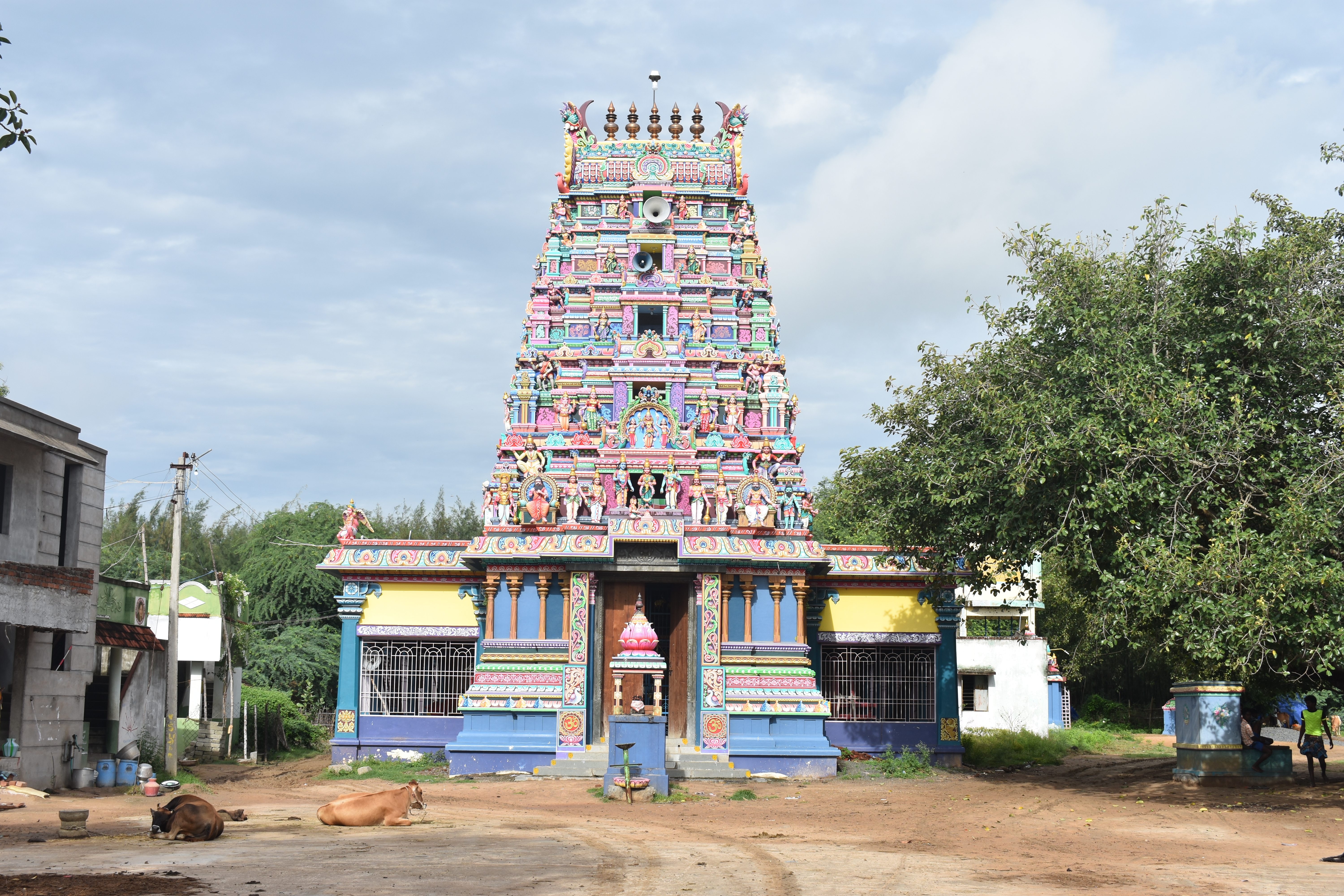 Eeswarakandanalloor Thirowpadhiyamman temple